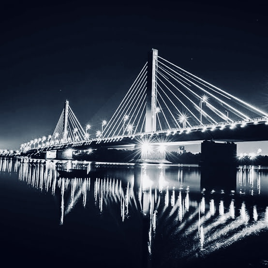 This is an image with the theme "Africa on the Move or Transport" from: Tanzania